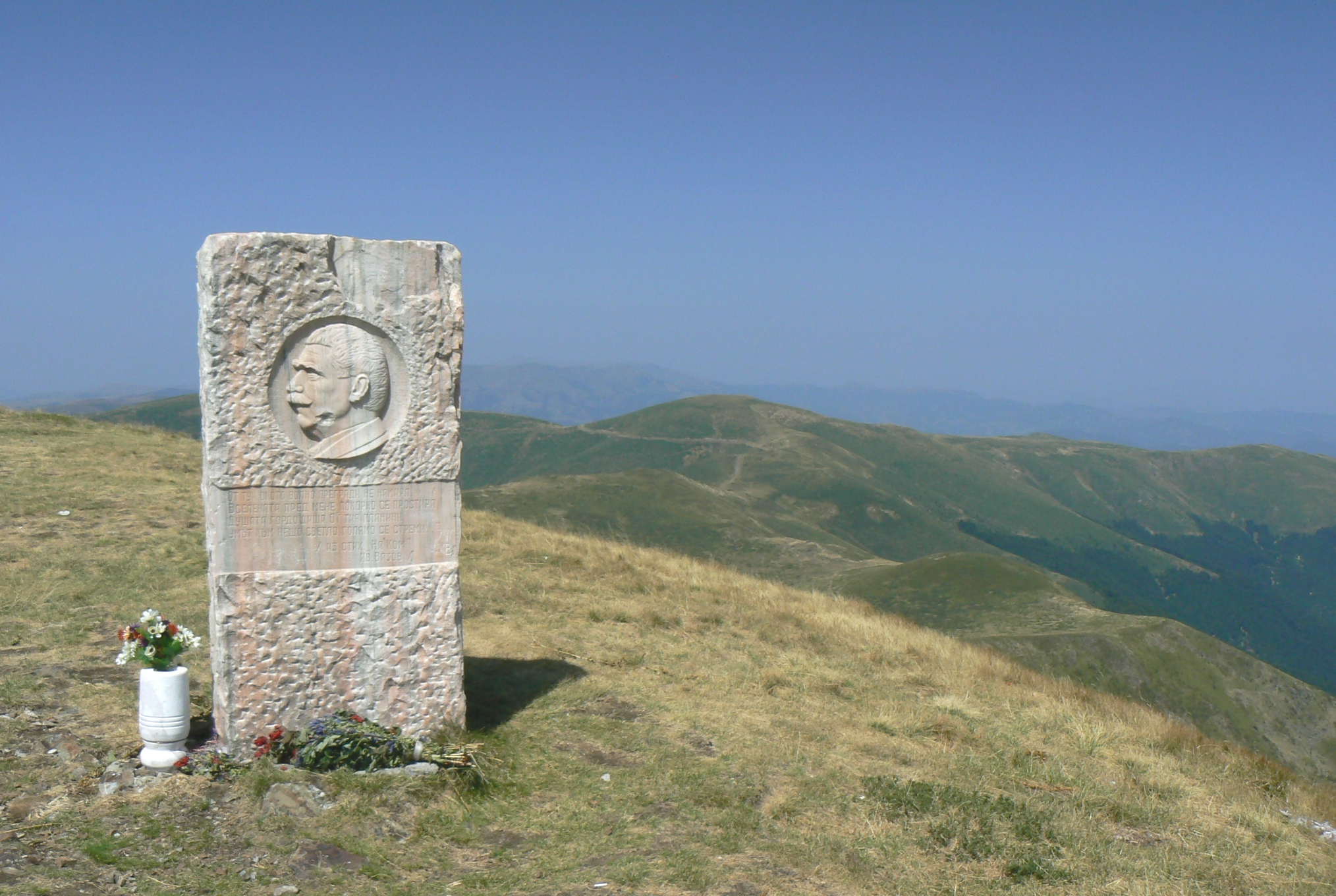 The basrelief of Ivan Vazov and part of his poem "On Kom", and view from peak Kom towards the neighbouring peaks of Stara planina